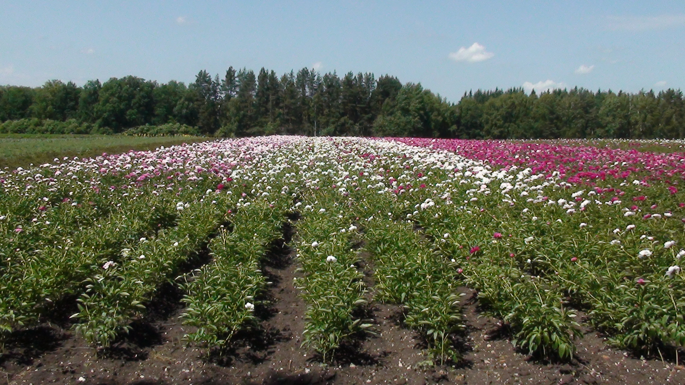 ЛОСС. цветы